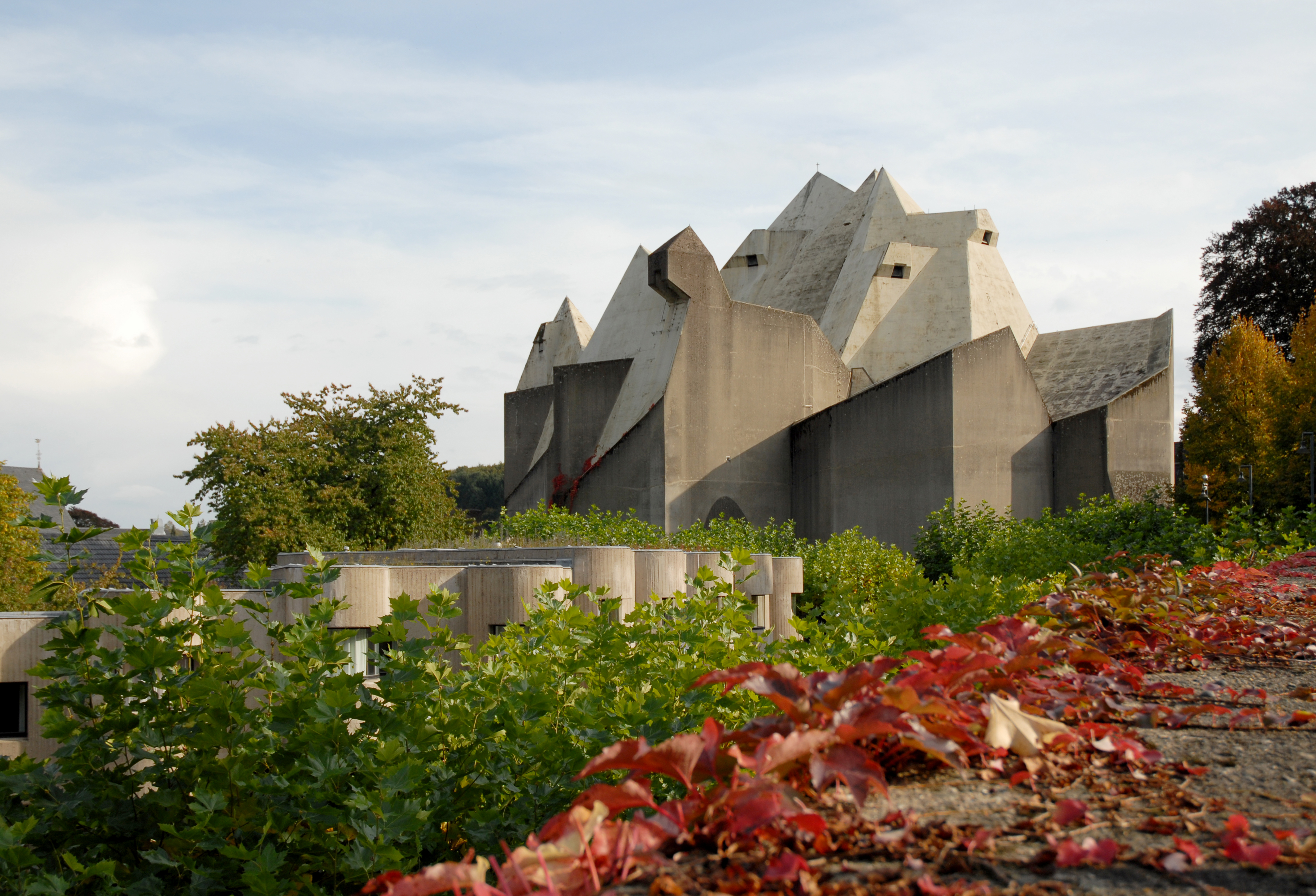 pilgrimage church, maria königin des friedens, neviges, germany 1963-1972. architect: gottfried böhm, b.1920. we are looking from the street down onto the processional route.